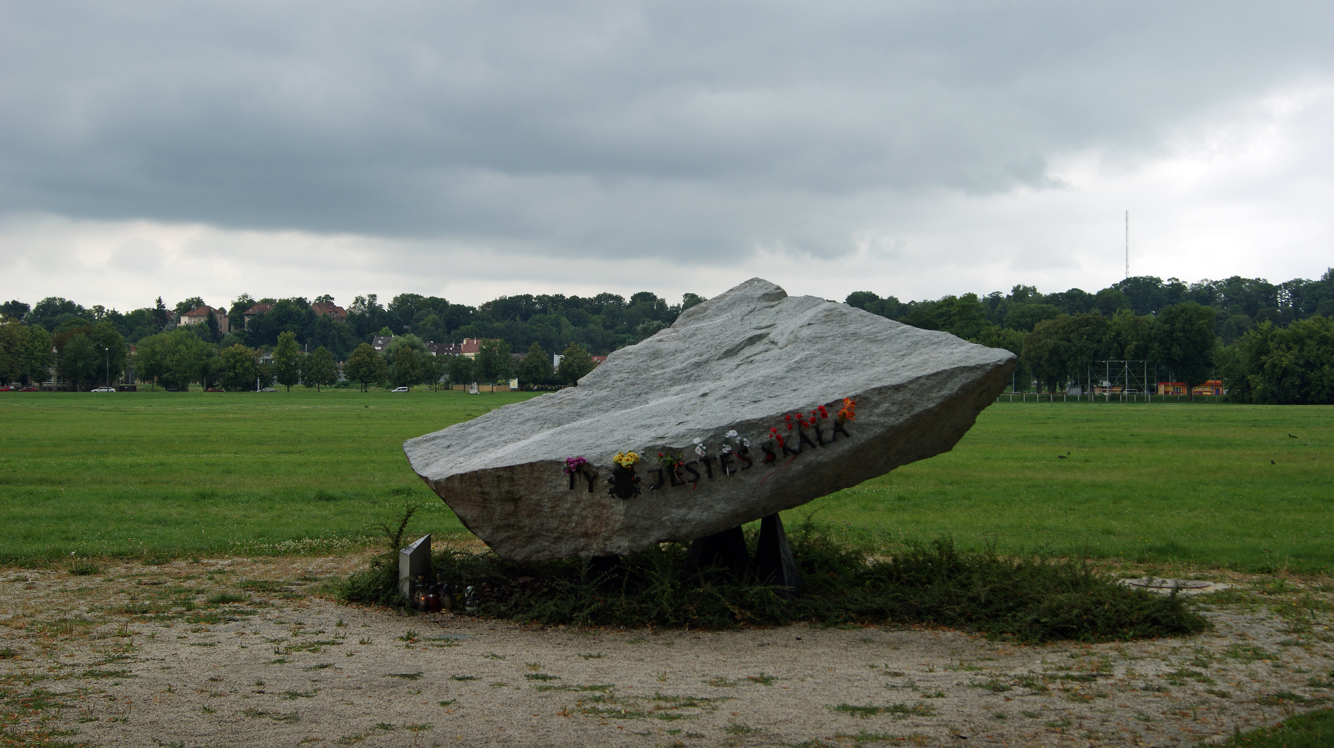 Pope John Paul II memorial, Błonia Park, May 3rd Av, Krakow, Poland